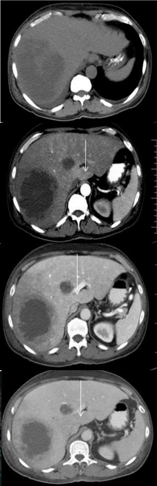 Contrast CT of an abscess and transient hepatic attenuation differences (THAD). From top to bottom: CT scan without contrast in the axial plane shows a well-defined multilocular, hypodense abscess in the right hepatic lobe (segment VII and VIII) and in the medial segment of the left lobe (IV b). Contrast CT in the arterial phase shows regional attenuation difference is noted in left lobe adjacent to left hepatic lobe abscess (white arrow) with a subtle increase in density (a transient hepatic attenuation differences, or THAD). Portal phase: Axial- shows that the previously noted THAD in left lobe adjacent to abscess has become isodense with rest of the liver (white arrow). Delayed phase: Again, the THAD continues to be isodense with rest of the liver (white arrow).